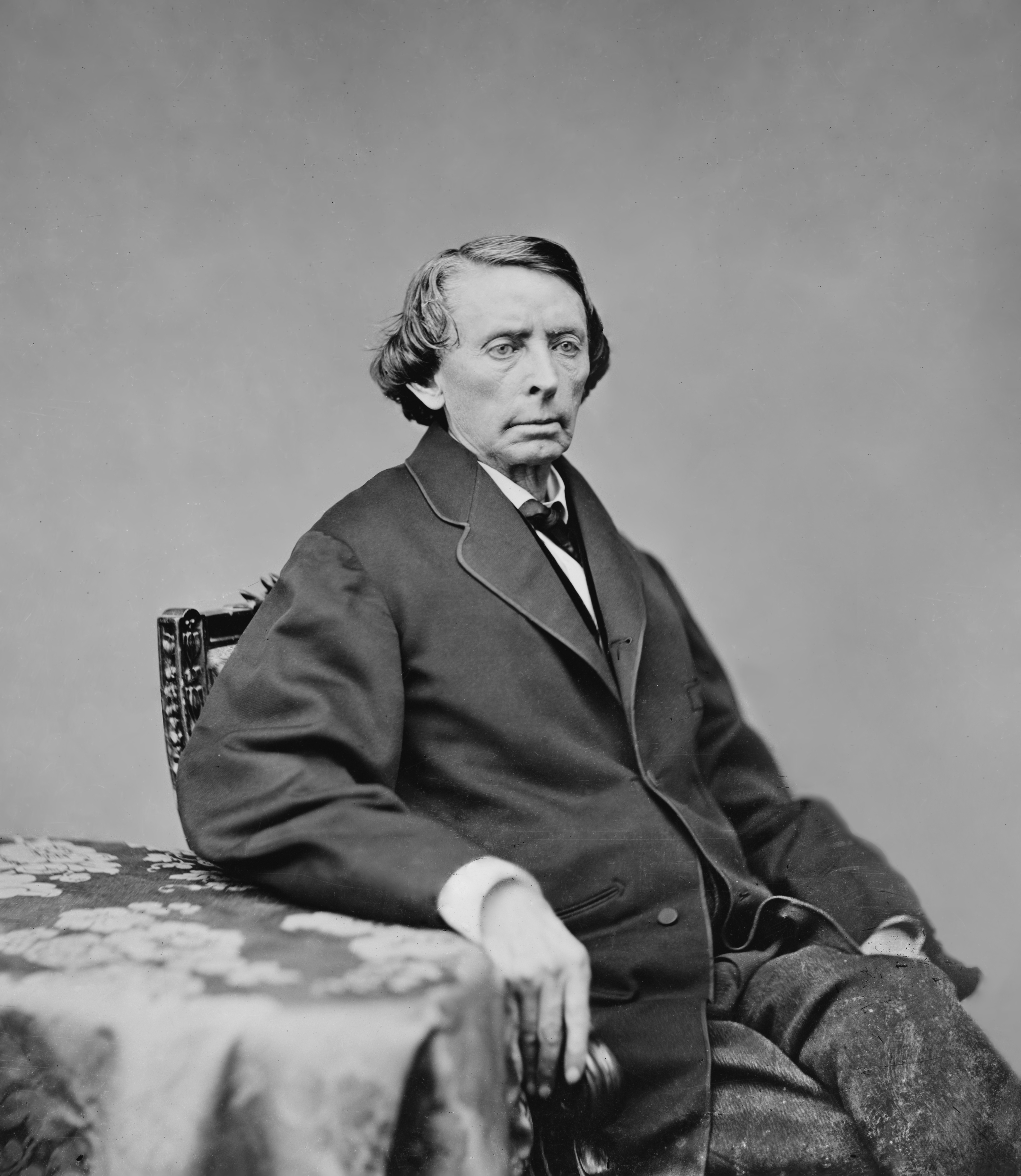 William Gannaway Brownlow Governor of the state of Tennessee cropped version